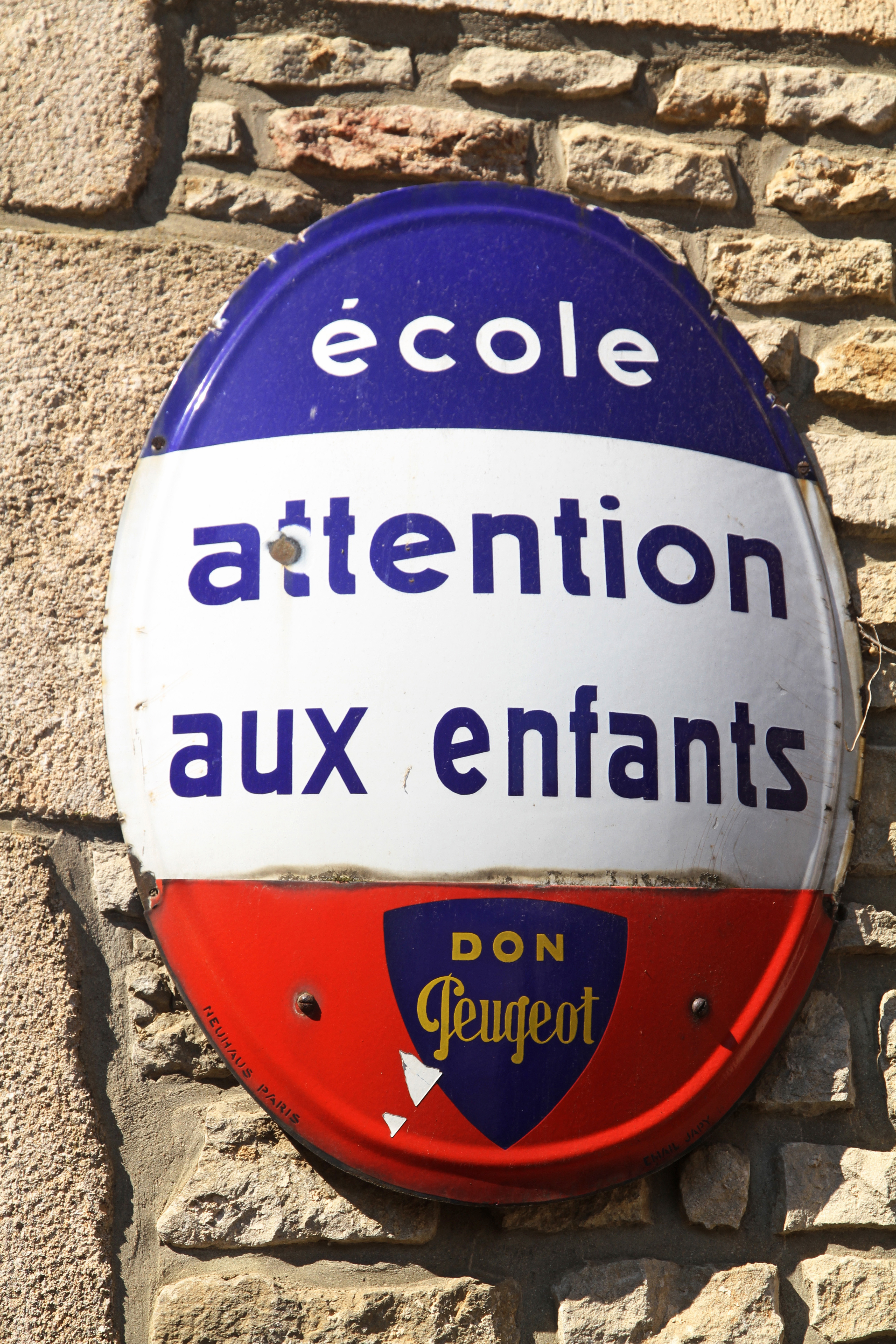 Ancien panneau Peugeot signalant une école à Minot